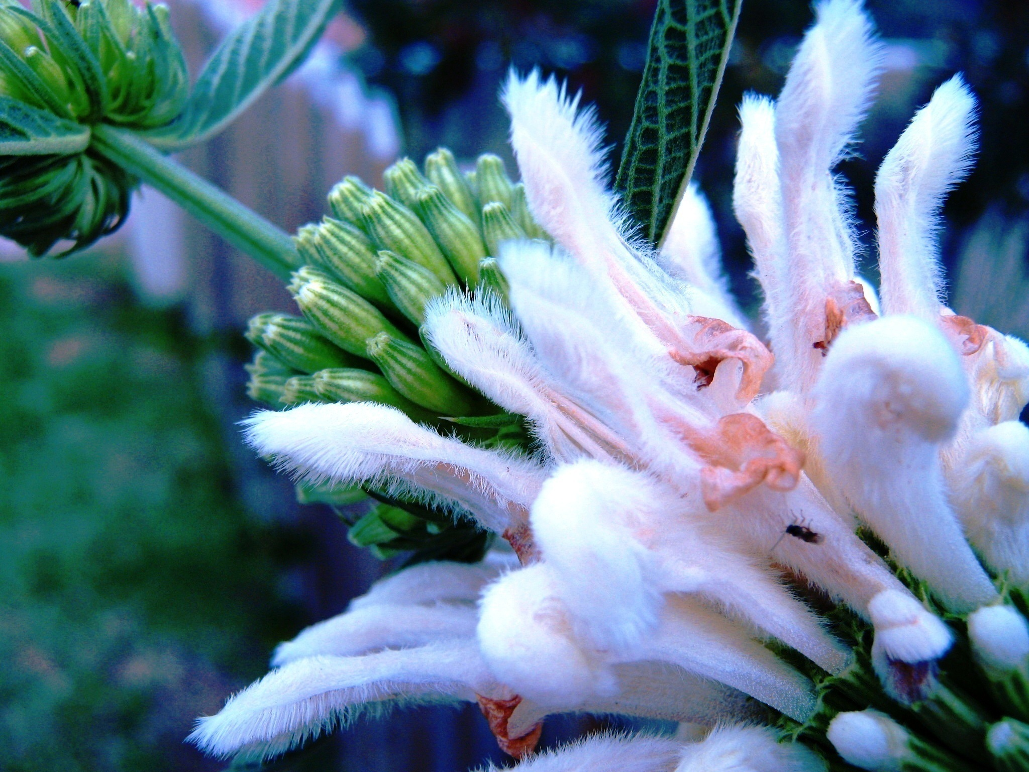 A photo of plant species Leonitis leonurus.